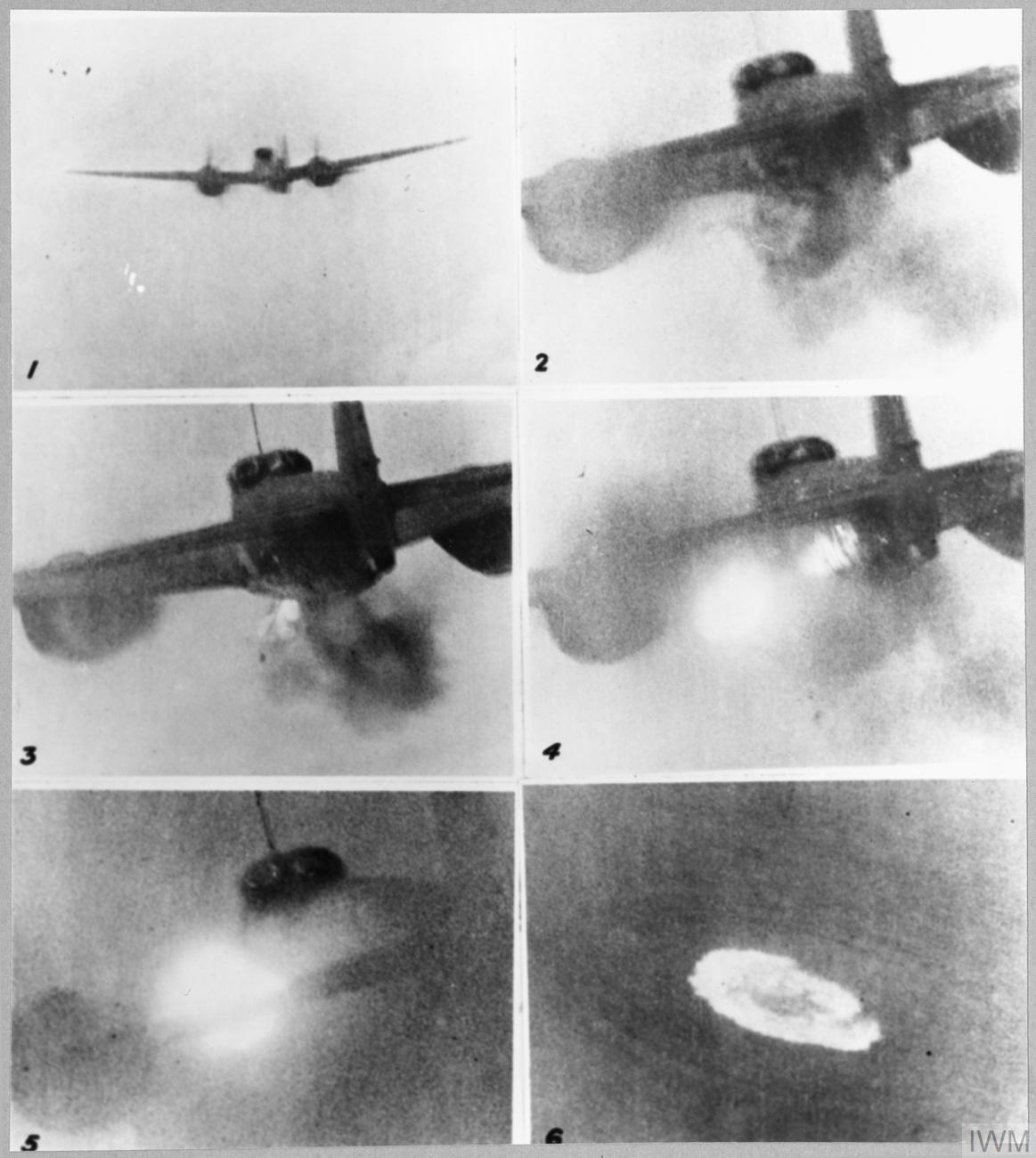 This spectacular series of six stills was taken from a De Haviland Mosquito NF Mk. II while intercepting a Ju 88 over the Bay of Biscay during bad weather. The fighter was flown by Flight Lieutenant J Singleton with J W Haslam operating the radar, of No. 25 Squadron RAF based at Church Fenton, Yorkshire.